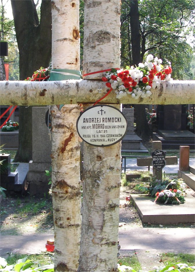 Andrzej Romocki monument, Powązki Cemetery in Warsaw